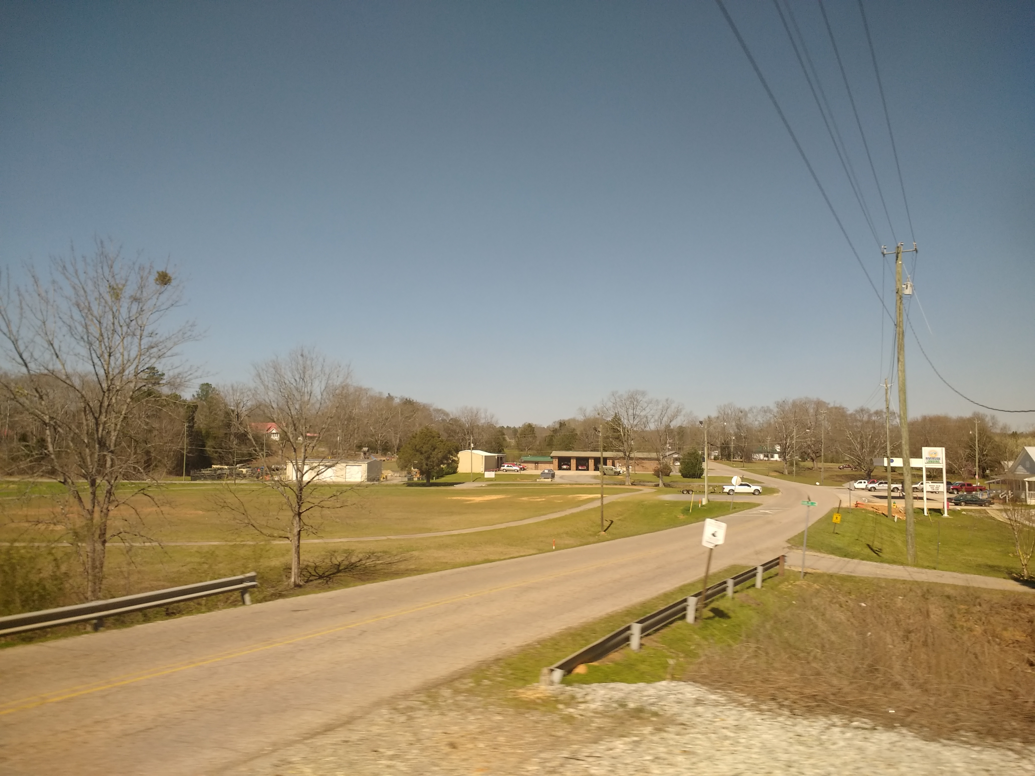 A road in Riverside, Alabama.